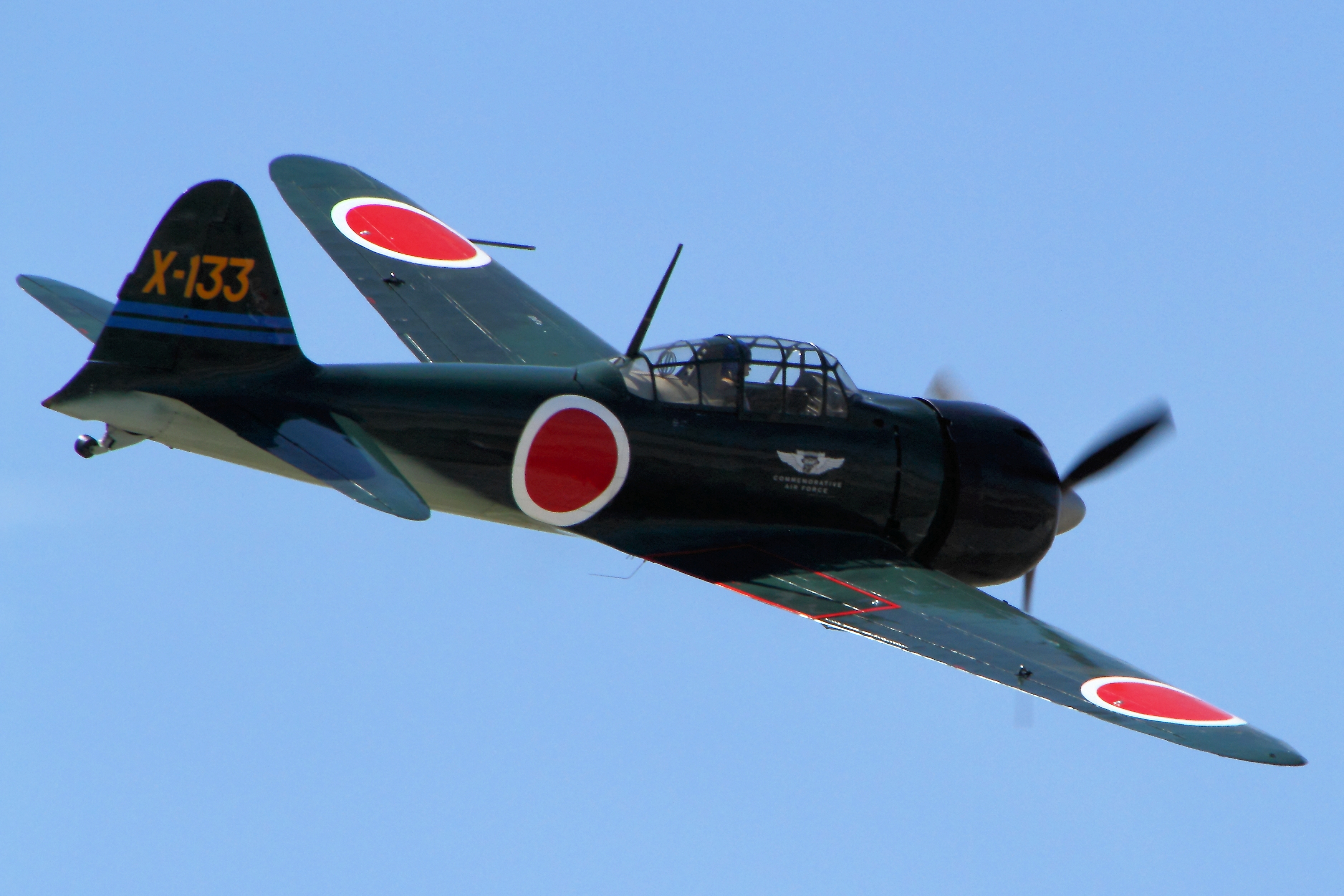 A6M3 Reisen (Zero) - Chino Airshow 2014